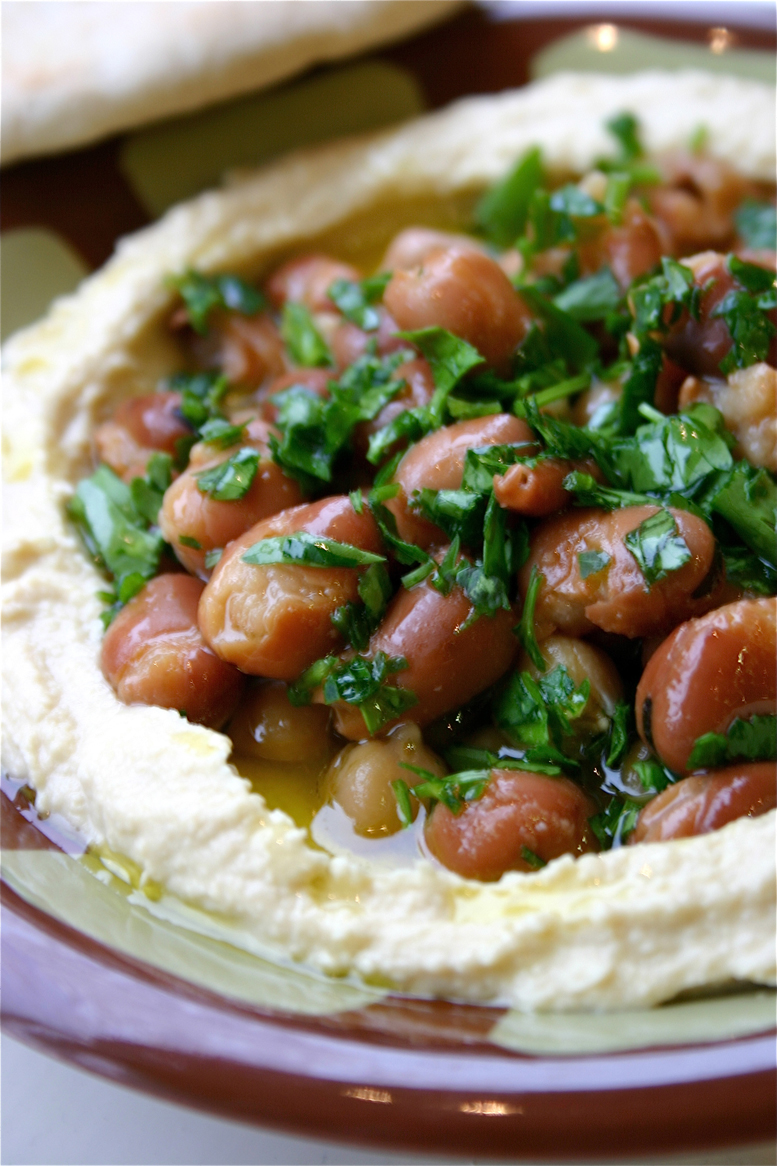 Hummus and Ful